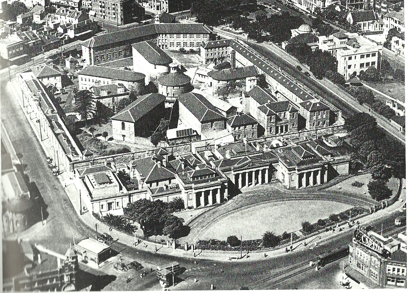 Scanned from a picture in the "St.Vincents Hospital" book, source The Mitchell Library, State Library of N S W. Photo was taken from the air some time in 1930 after the Darlinghust Gaol had closed in 1912 when prison was moved to Long Bay. SEE PLAN OF PRISON UPLOADED 2010. 1841- 1912 Operated as Darlinghrust Gaol 1914-1918 Internment camp for Enemy Alians and Military detention camp 1921-22 Extensive alterations and additions to make into Technical College (SEE UPLOAD OF MEMORIAL STONE) 1976 Site clasified by the National Trust. 2010 NSW State Govt announced $15million for further restoration upgrade of the National Arts College now located here